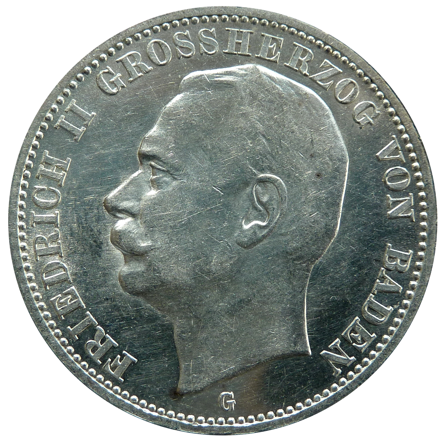 3-Mark-Coin of Baden with the portrait of Friedrich II.